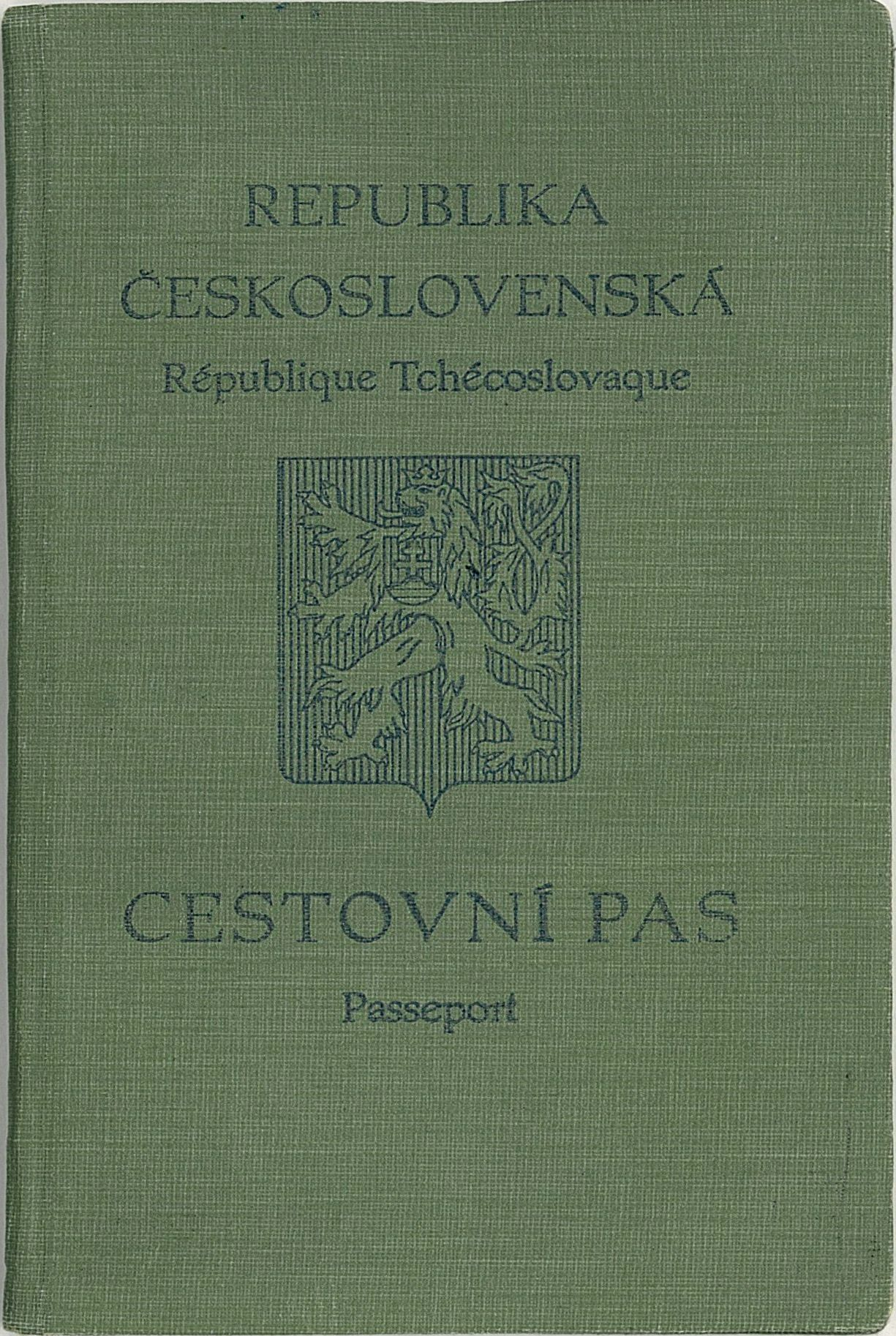 Passport of a citizen of the first Czechoslovak Republic (1918-1938).